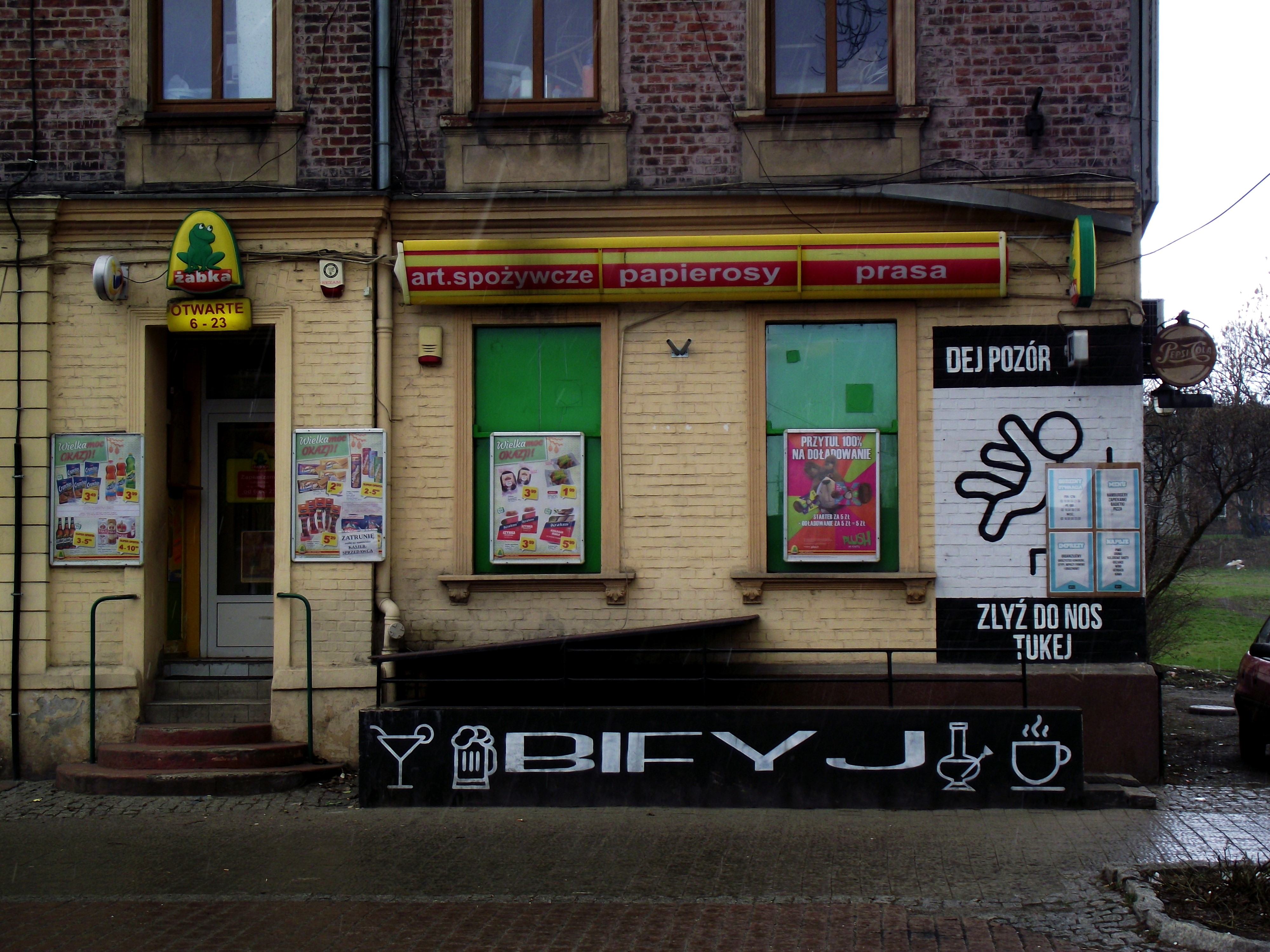 The pub Bifyj in Piekary Śląskie with inscriptions in Silesian.